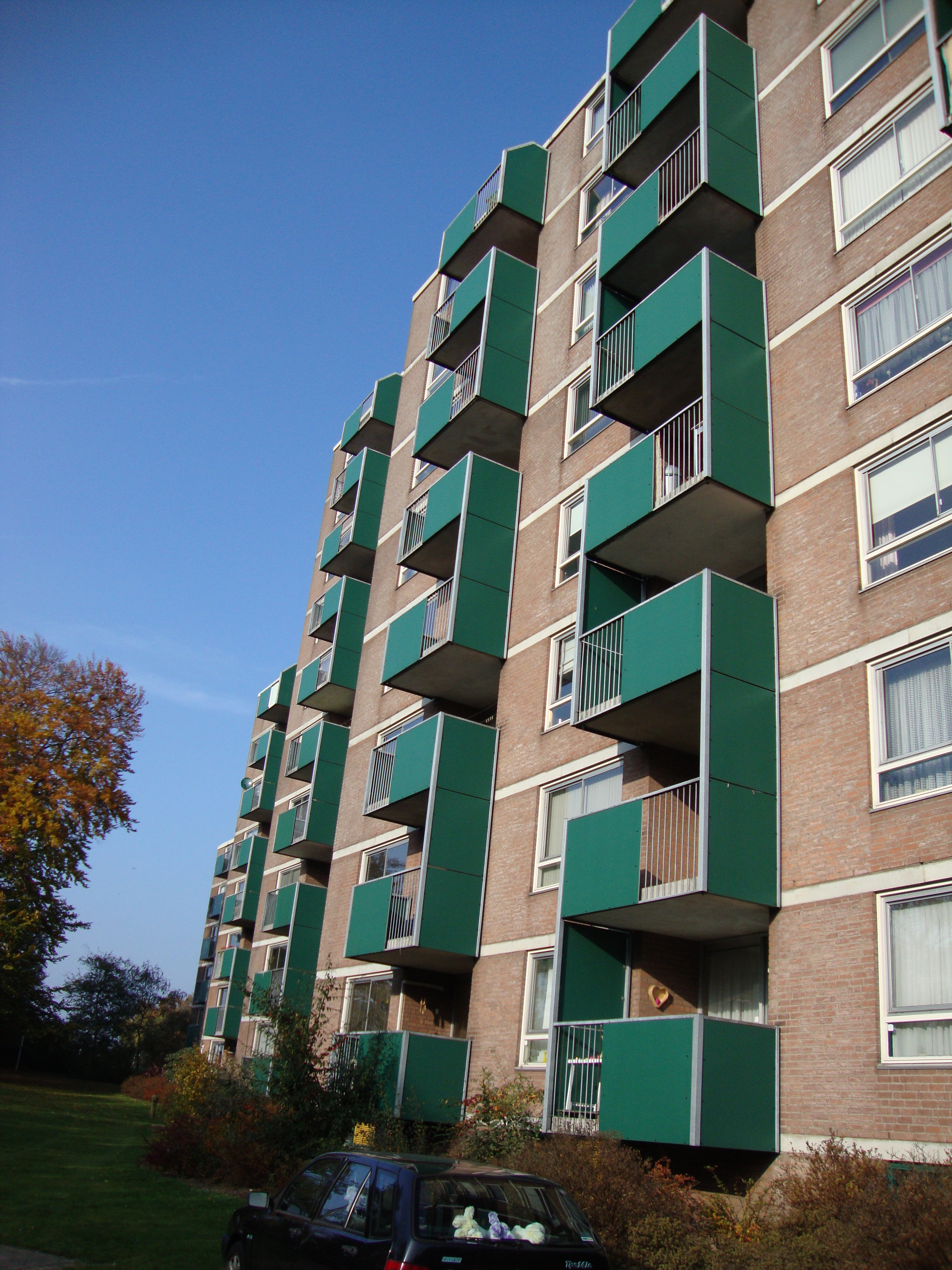 Nijmegen, apartment building Heidepark. The ground floor is completely adapted to handicaped habitants